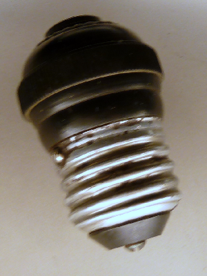 Attachment Plug Improved by Konosuke Matsushita.